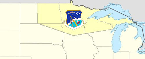 30th Air Division map 1966-1969